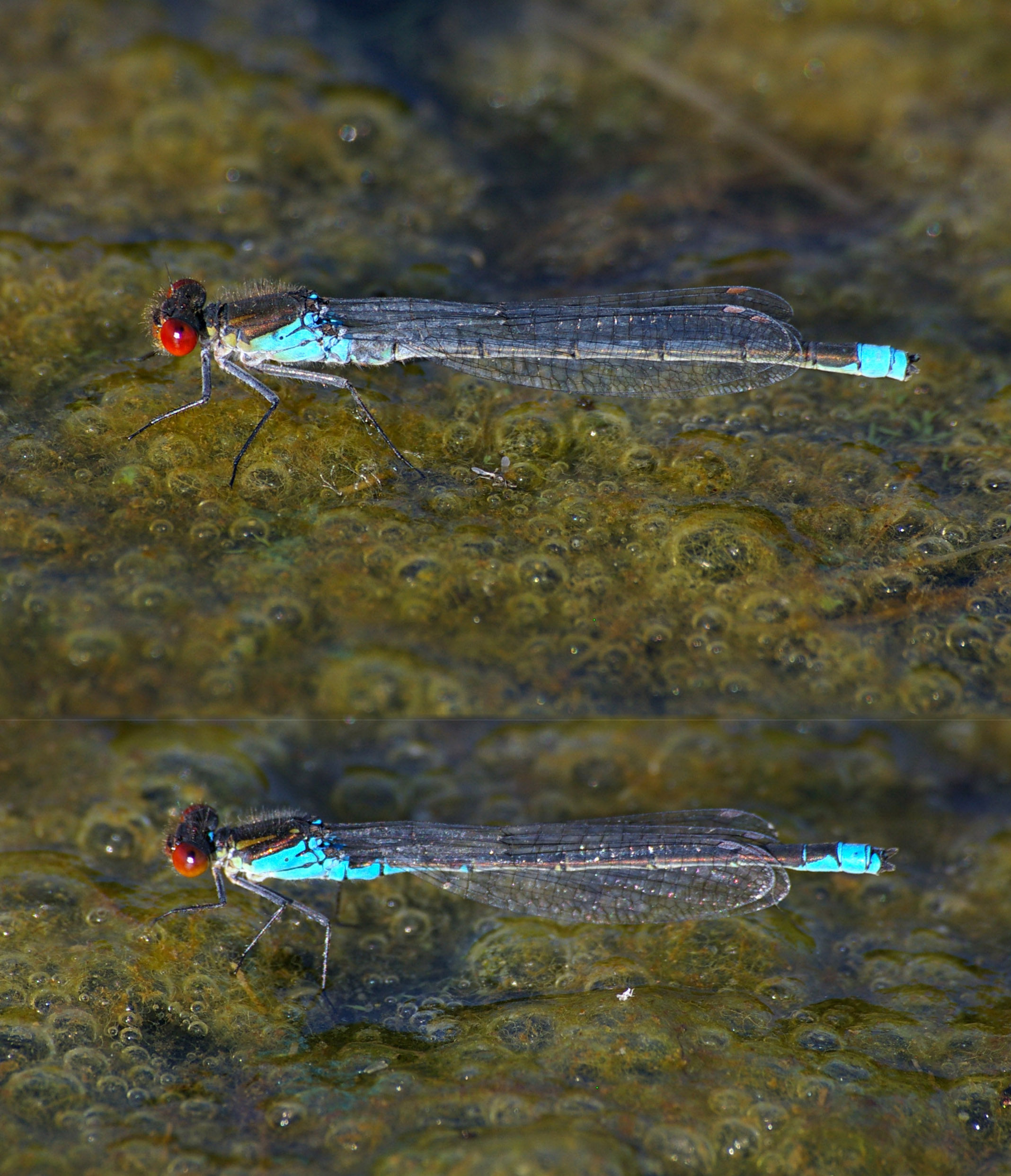 Comparison between male specimens of the closely related damselflies Erythromma najas (Red-eyed Damselfly; top) and Erythromma viridulum (Small Red-eyed Damselfly; bottom). Notice the petty different distribution in the blue markings. Location (the same habitat): North-eastern Lower Saxony, Germany.